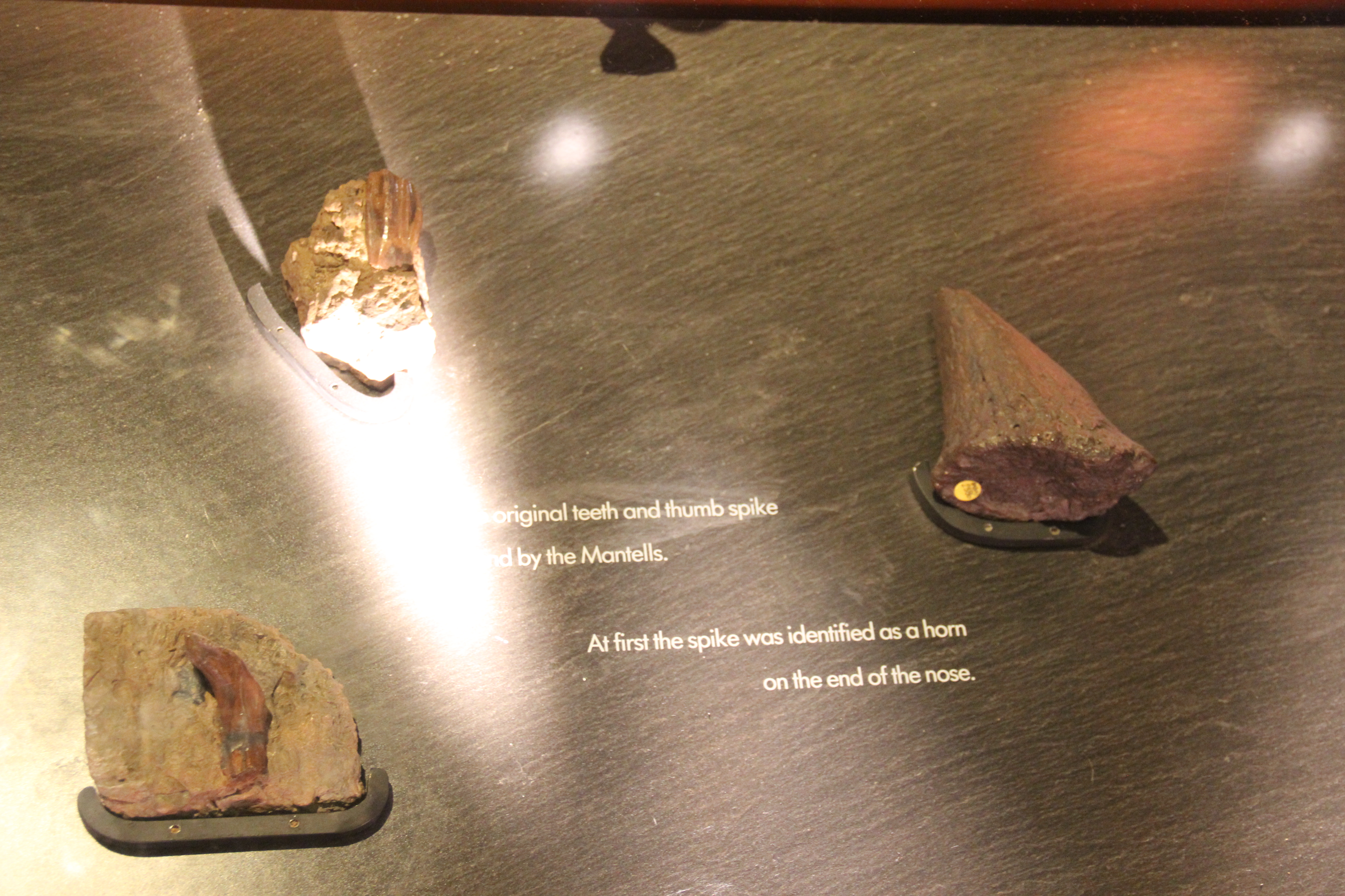 Natural History Museum, London, England, UK. Complete indexed photo collection at .